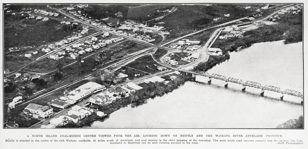 1933 view of stations at Huntly and Huntly Town (1916-1969), Awaroa Branch